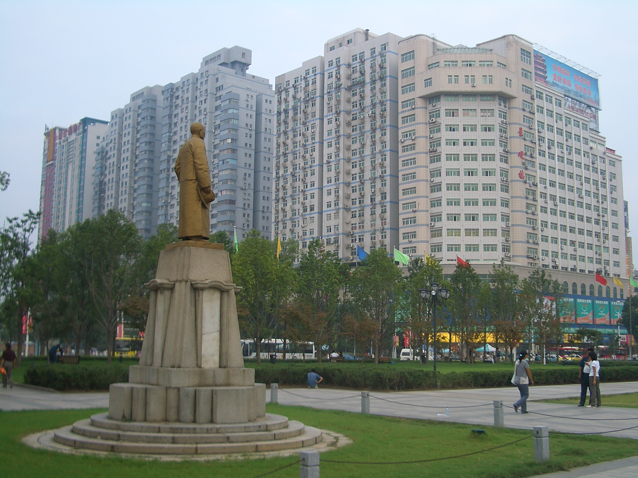 The square in front of the Wuchang Uprising Memorial, Wuhan - looking away from the memorial and toward the modern apartment buildings